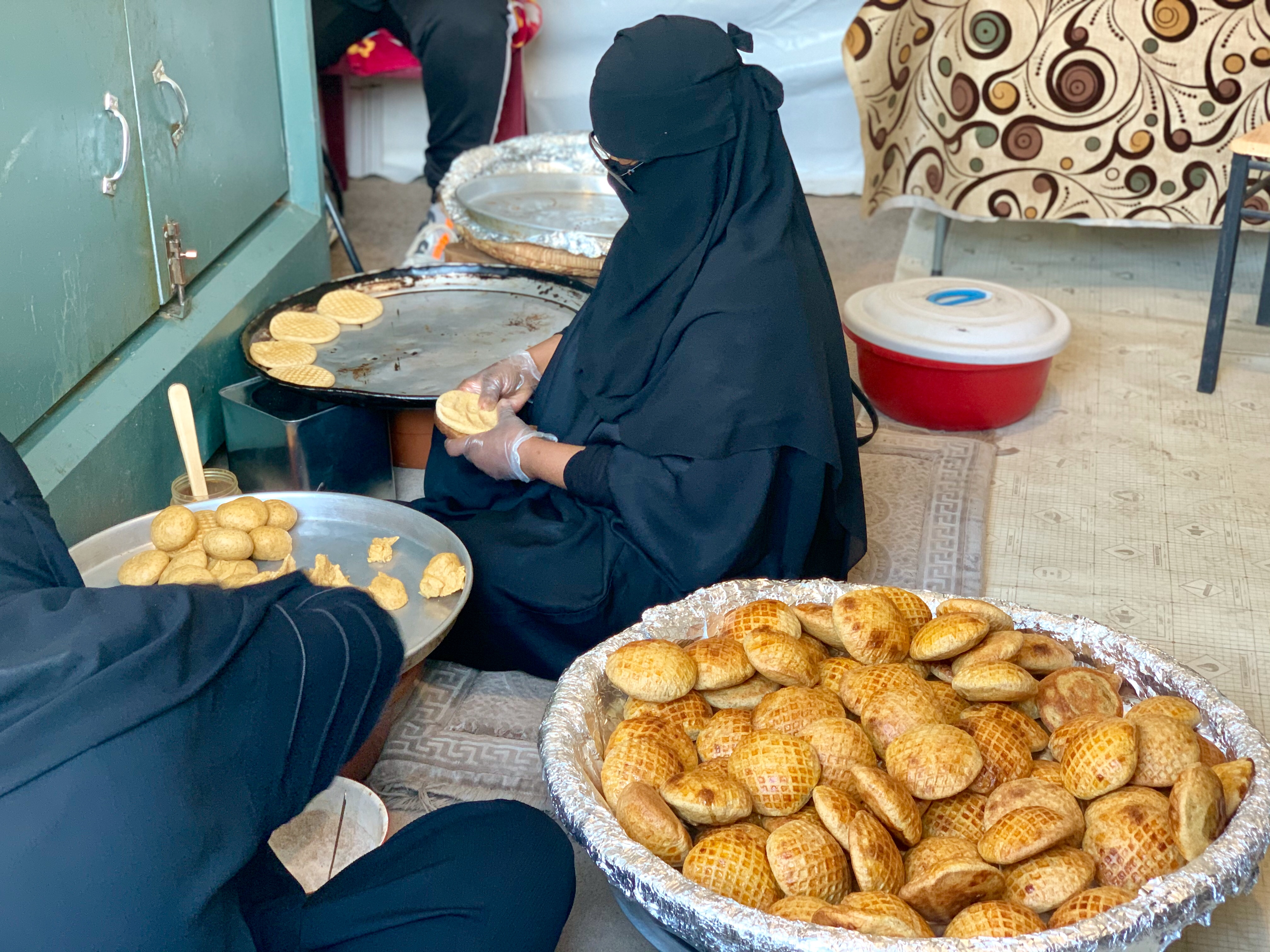 Women make Kleeja.